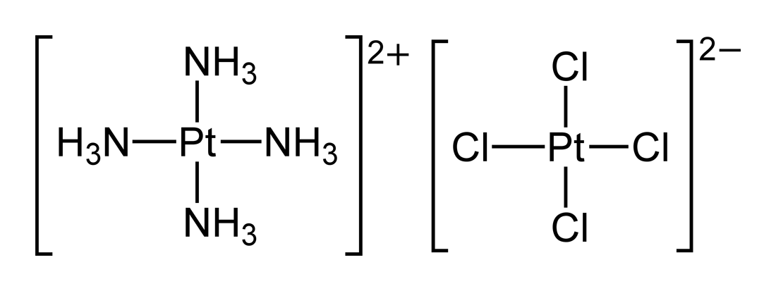 Structural formula of the constituent ions of Magnus' green salt, tetraammineplatinum(II) tetrachloroplatinate(II), [Pt(NH3)4][PtCl4]. Structure drawn in ChemDraw Ultra 11.0.